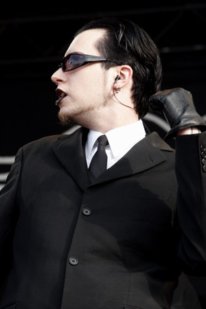 Chris Pohl's photo